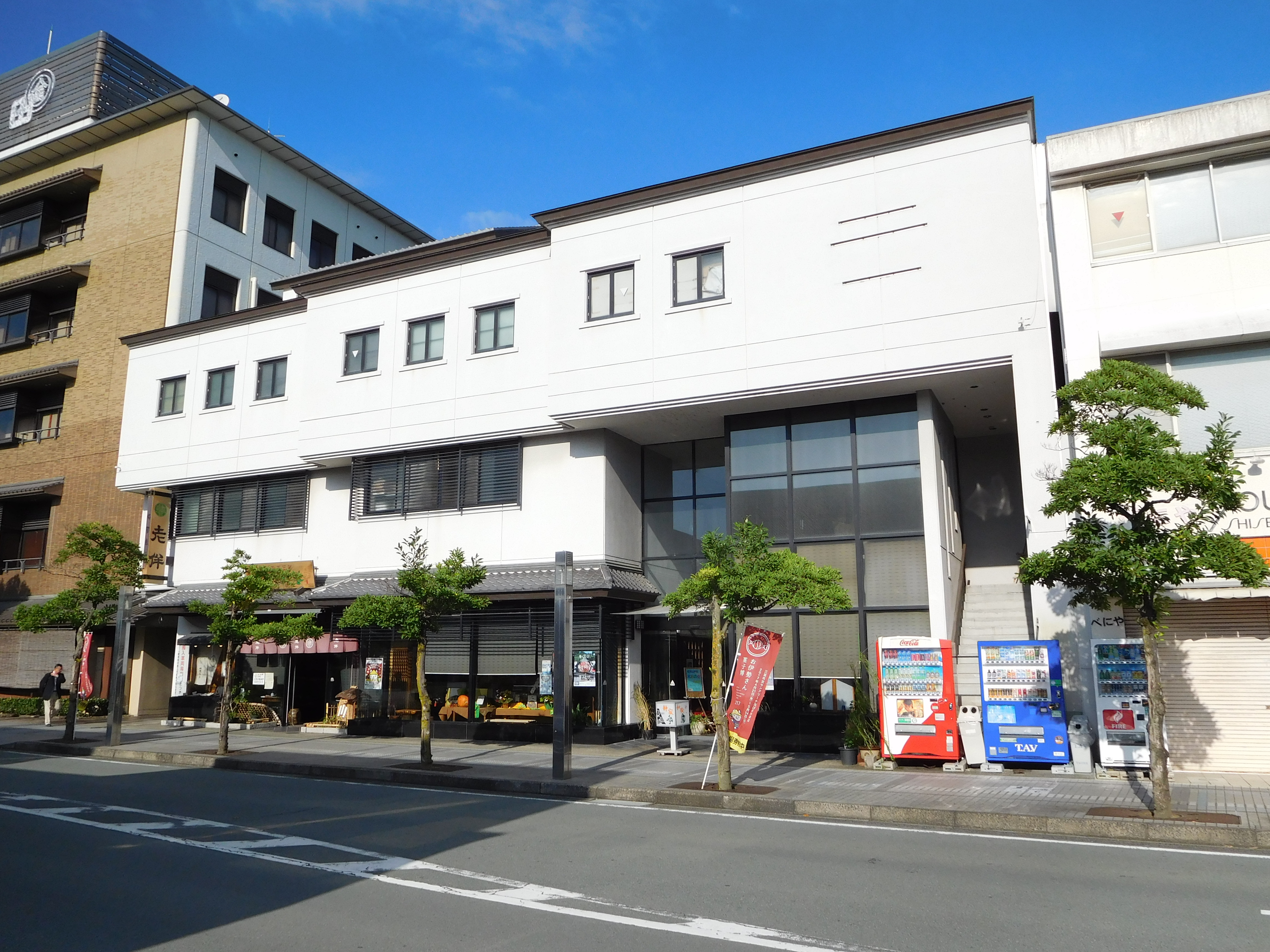 This is the head office of Yanagiya Hōzen in Matsusaka, Mie, Japan.